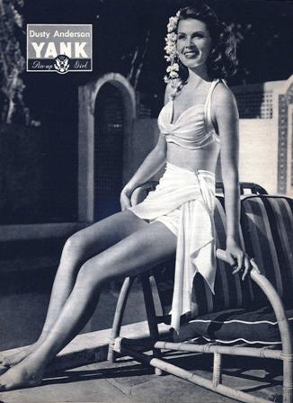 Pin-up photo of Dusty Anderson for Yank, the Army Weekly, a weekly U.S. Army magazine fully staffed by enlisted men.